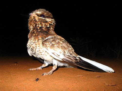 White-winged Nightjar (Caprimulgus candicans)